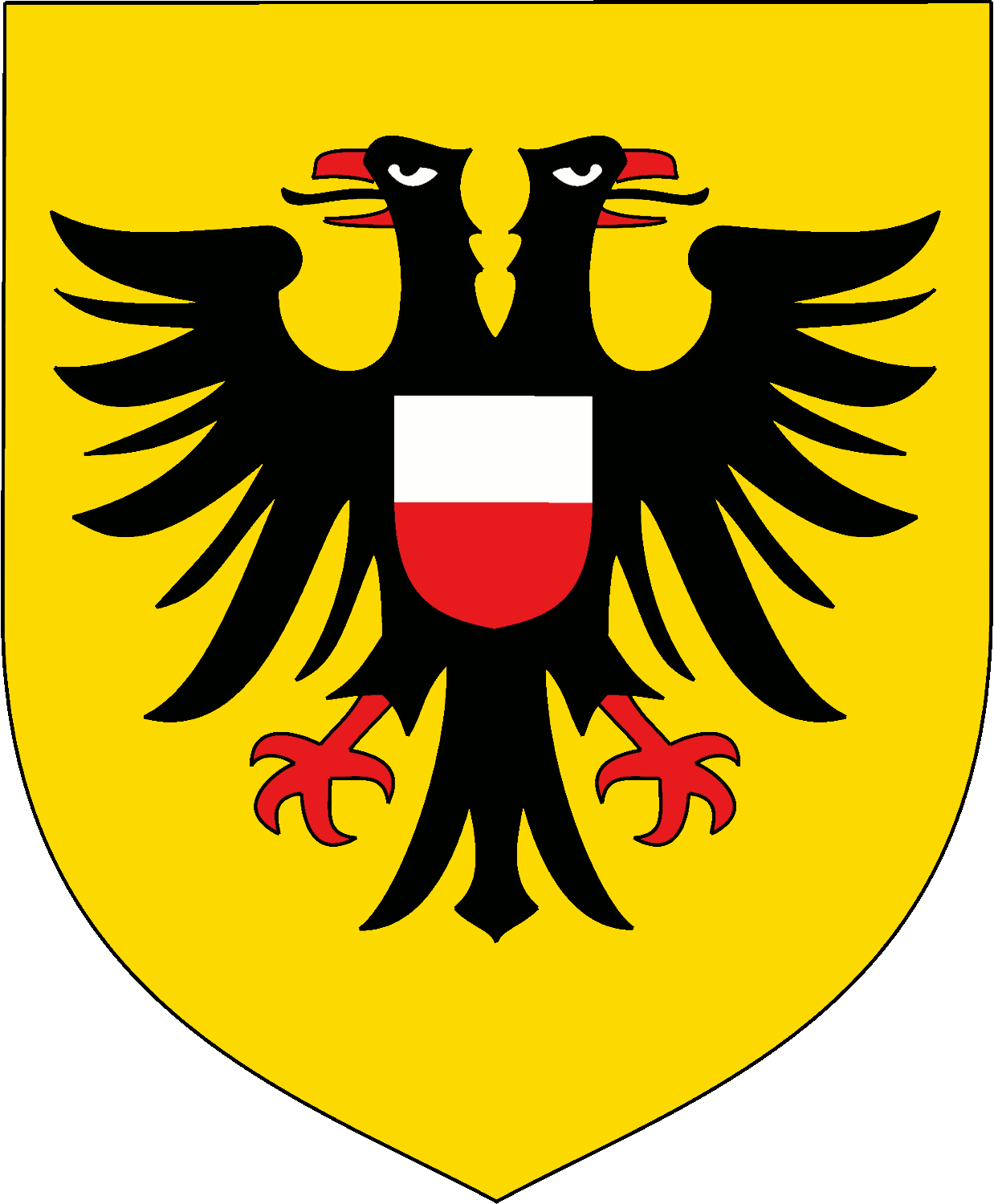 Coat of arms of the city of Lübeck in Schleswig-Holstein, Germany.